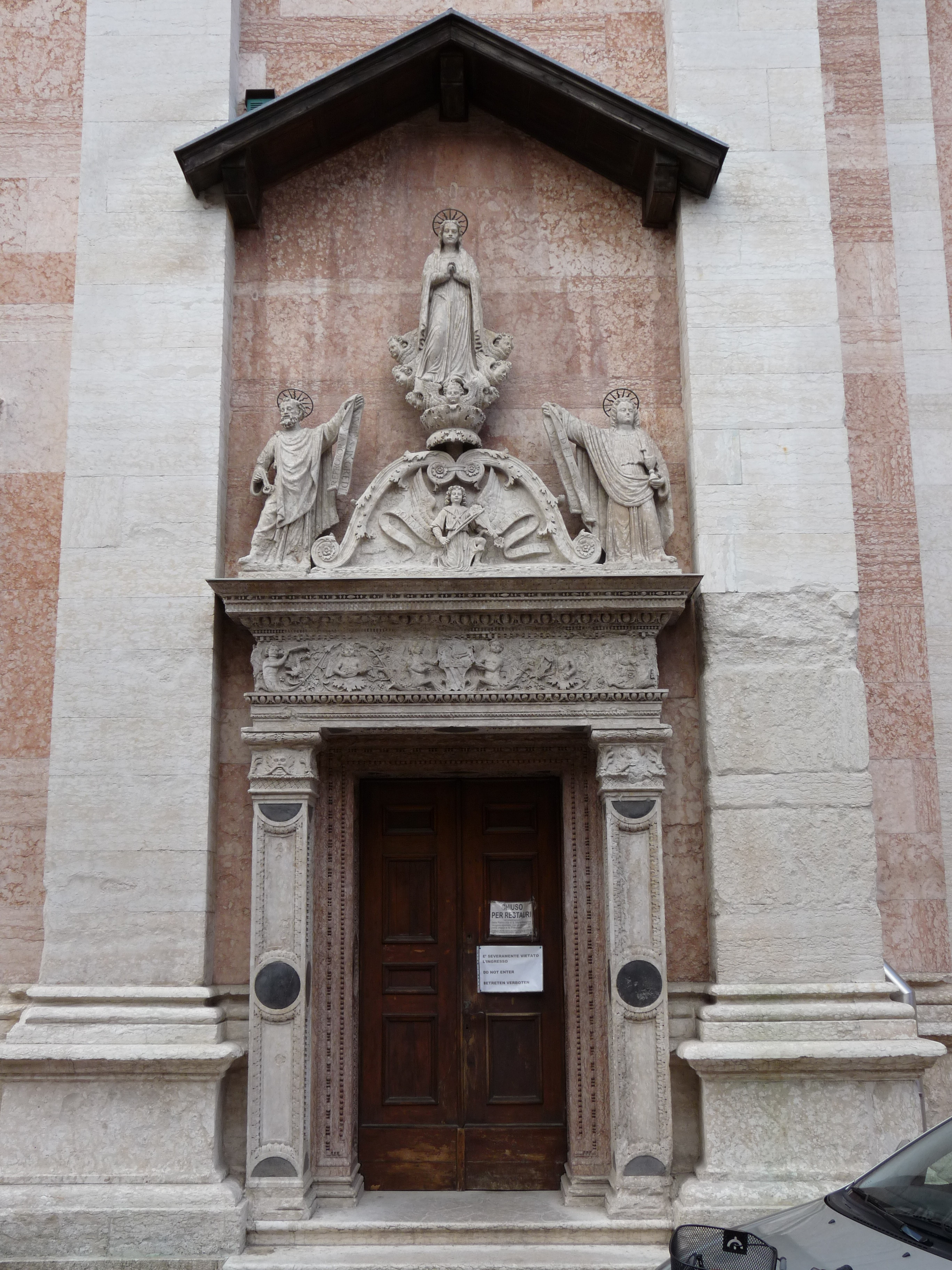 Trento: portal at the southern entrance of the Santa Maria church